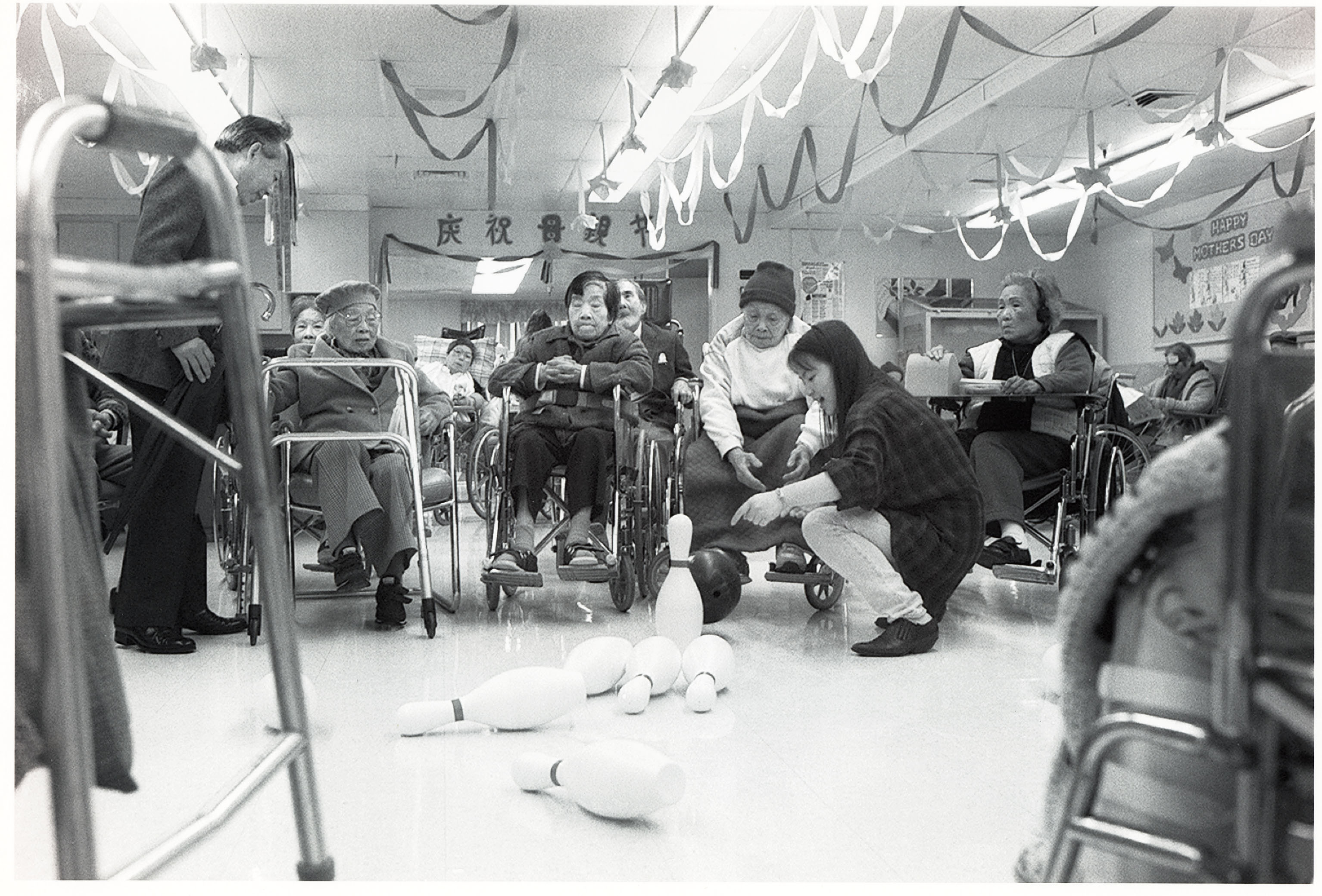 On Lok Senior Health Services in San Francisco, California is the parent organization for a group of non-profit organizations that help older adults and their families pursue a better quality of life.